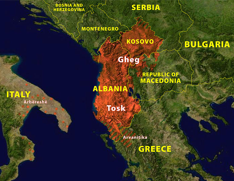 Distribution map of the Albanian language (in white letters: dialects)